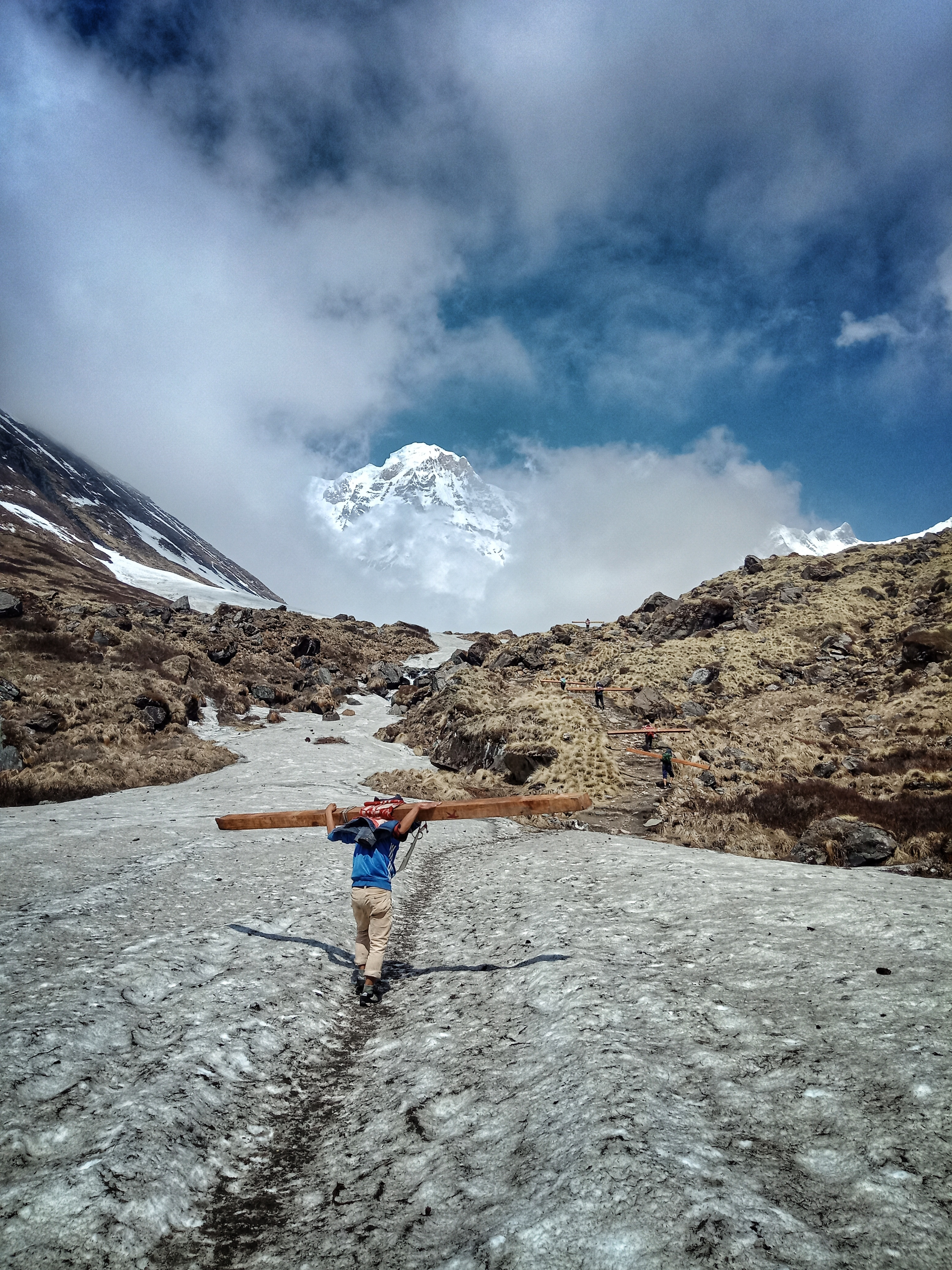 Landscape at Annapurna Conservation Area in the Himalayas